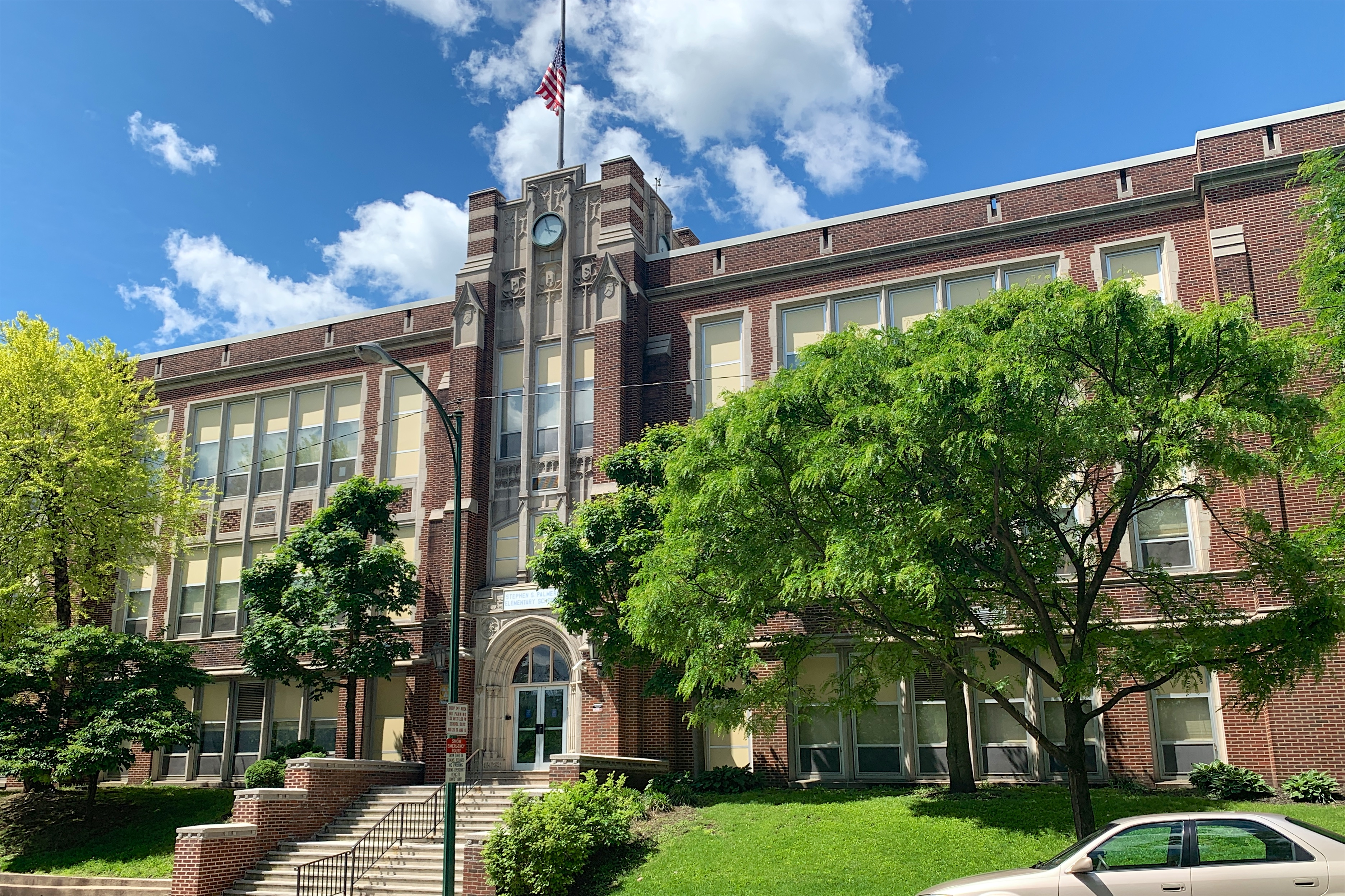 The S.S. Palmer Elementary School, formerly the High School, in Palmerton, Pennsylvania. Contributing property of the Palmerton Historic District.